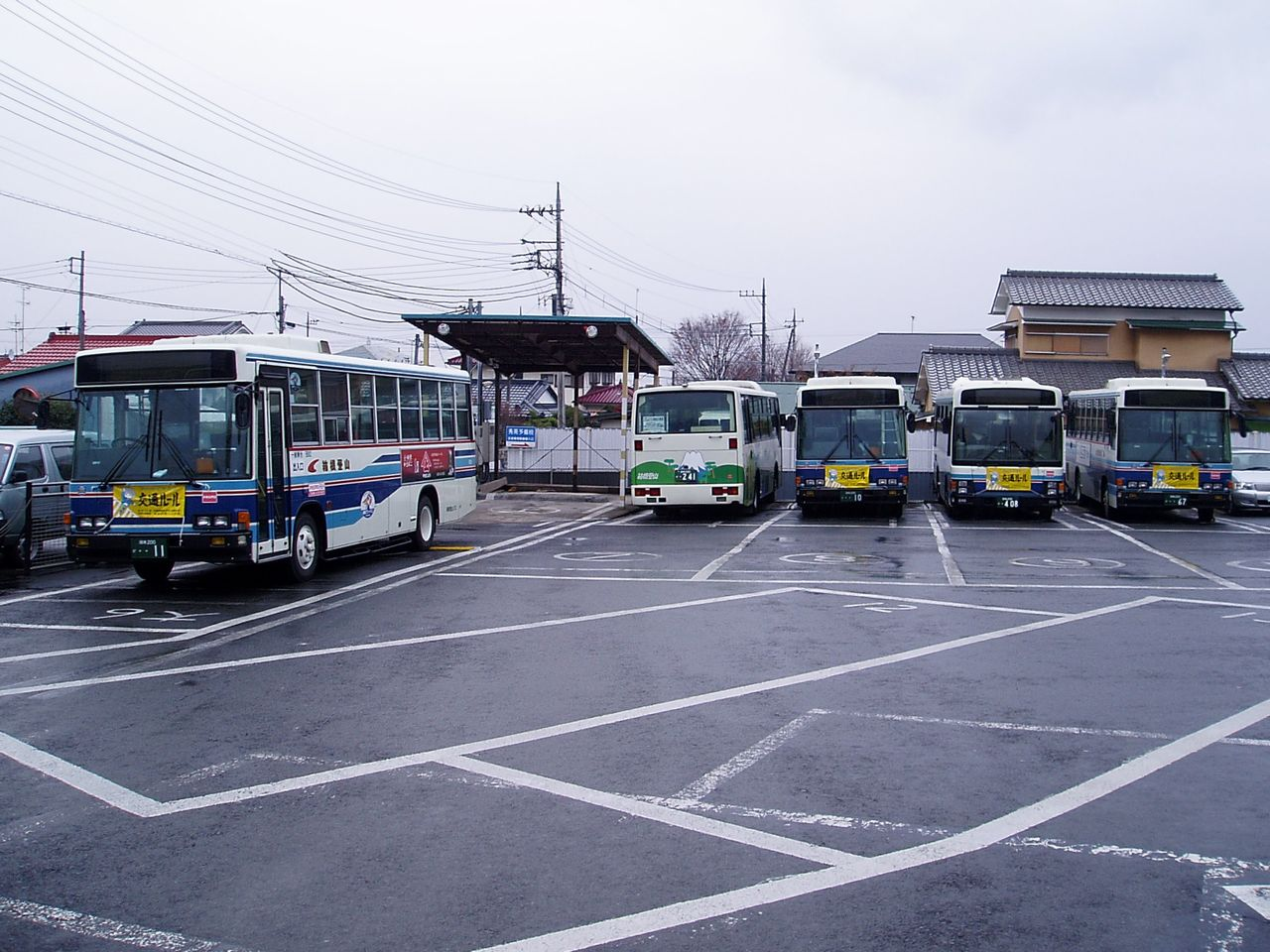 Hakone Tozan Bus Sekimoto Branch